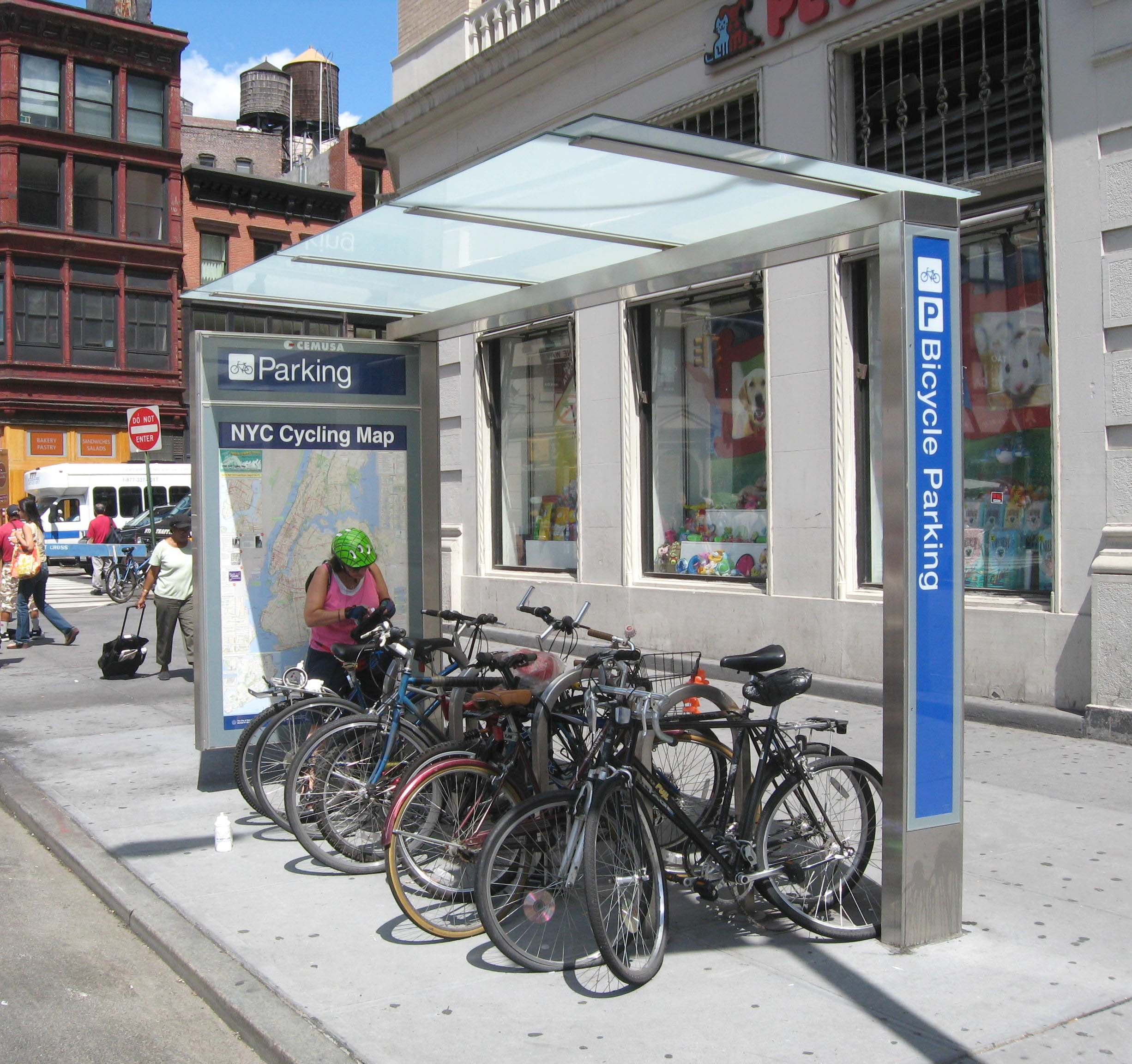 Looking northwest towards Broadway at bike parking structure on north side of East 17th Street, Manhattan on a sunny midday